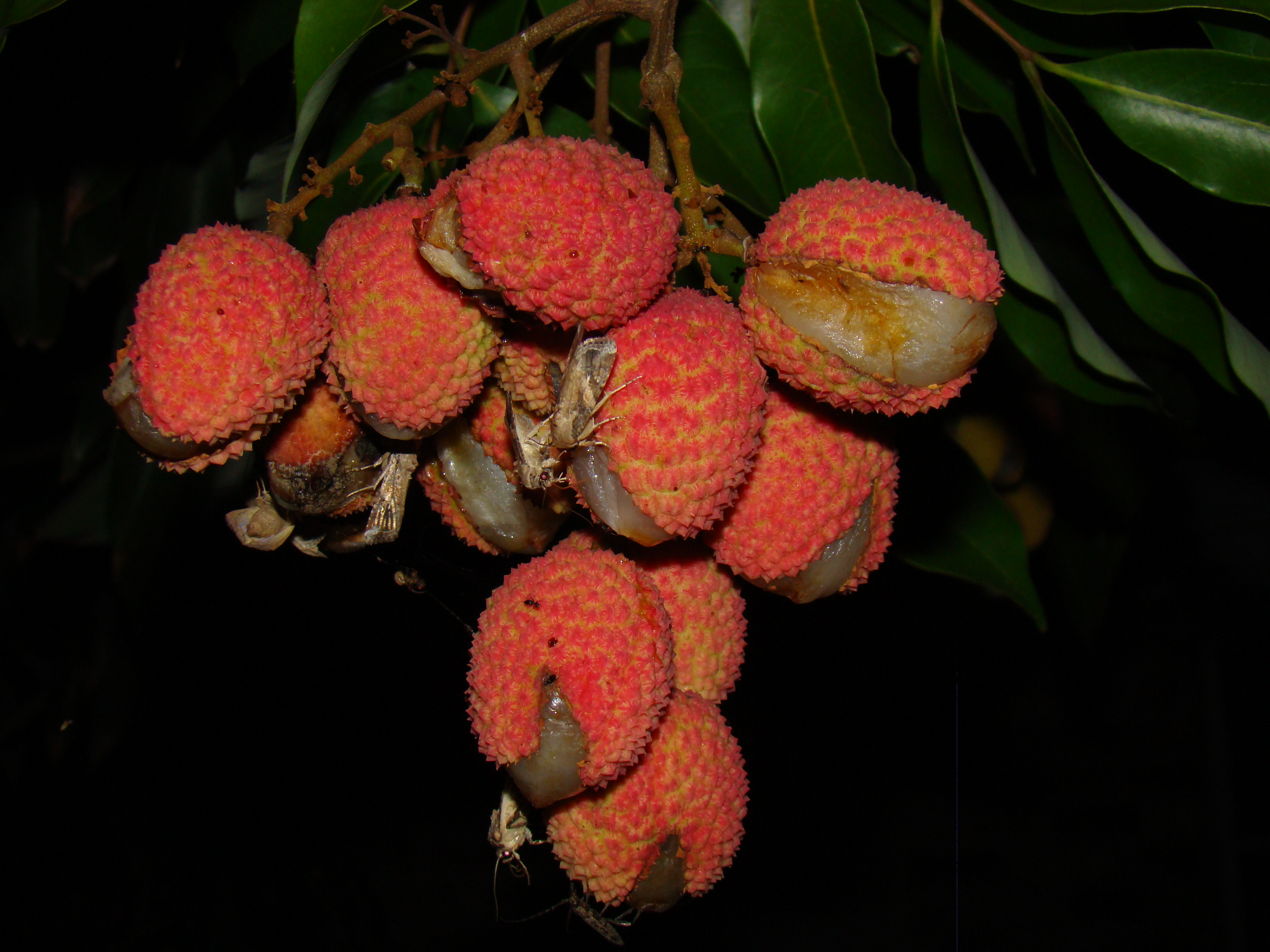 A bunch of ripe but split Mauritius Lychees (Litchi chinensis / Sapindaceae) in a tree in Rockledge, Florida, are the targets of nocturnal insects.